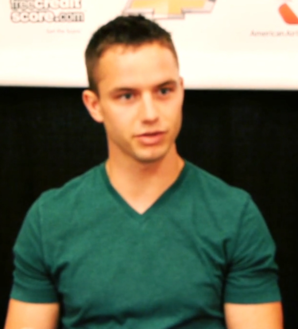 Will Brittain SXSW Film 2013 Interview in Austin, TX with Smells Like Screen Spirit in support of A Teacher.